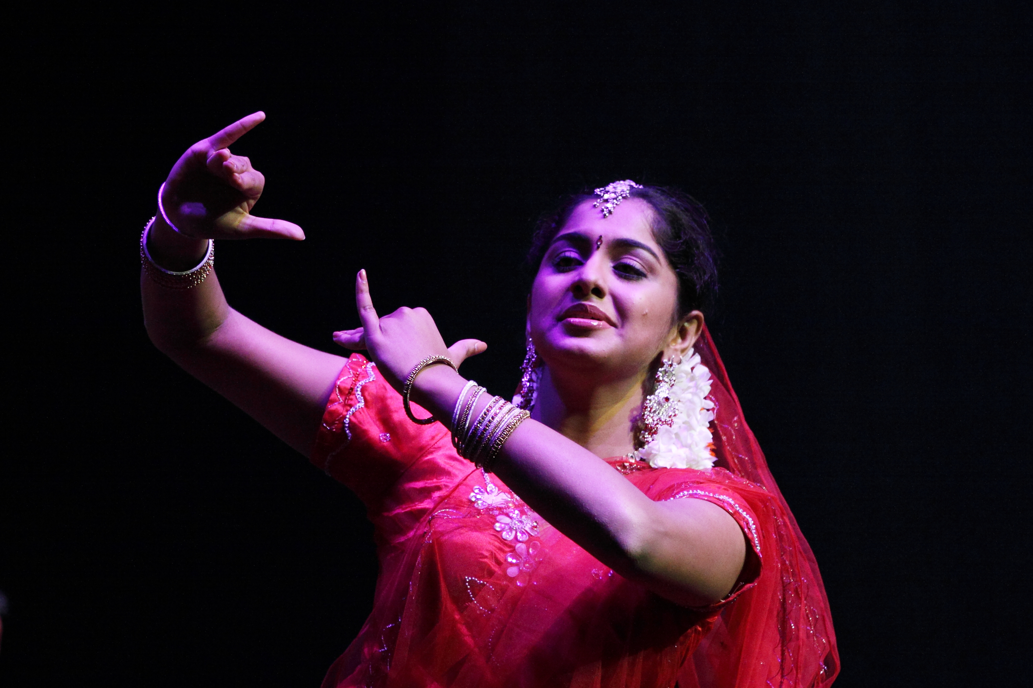 This media file is uploaded with Malayalam loves Wikimedia event - 2.